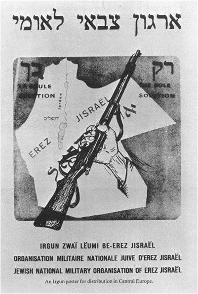 Historic poster of the Irgun, made for distribution in central Europe, ca. 1931-38. It depicts "Erez Yisrael" in the borders proposed by the Balfour Declaration.